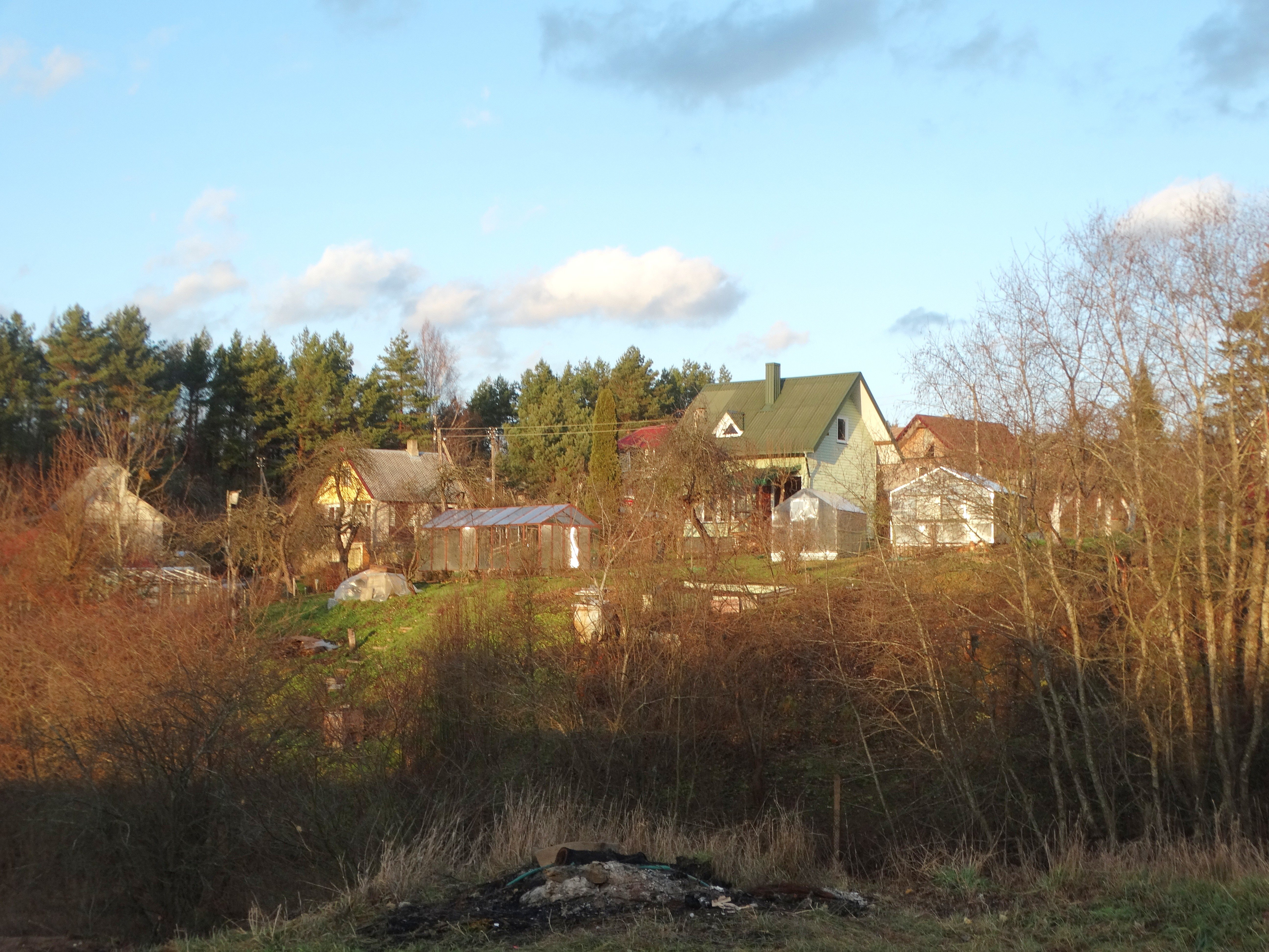 Kriemala, Kaunas District, Lithuania